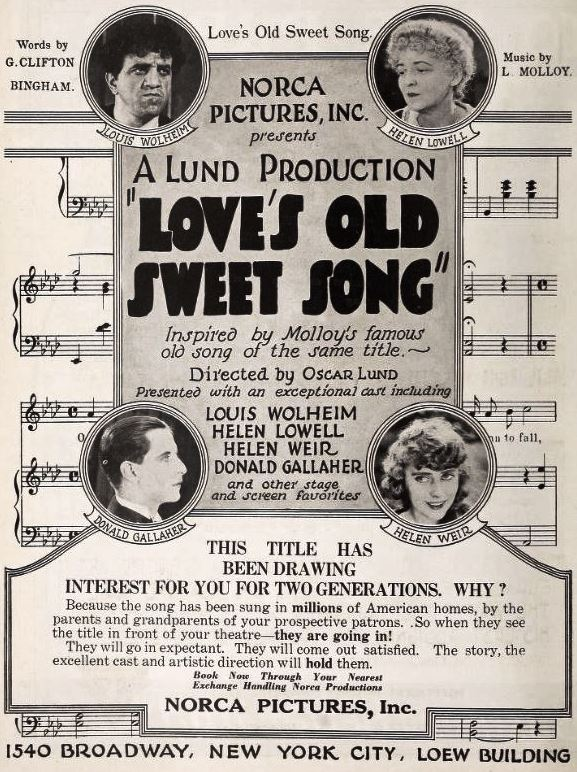 Advertisement for the American film Love's Old Sweet Song (1923) with Louis Wolheim, Helen Lowell, Donald Gallaher, and Helen Weir, on page 10 of the January 13, 1923 Exhibitors Trade Review.